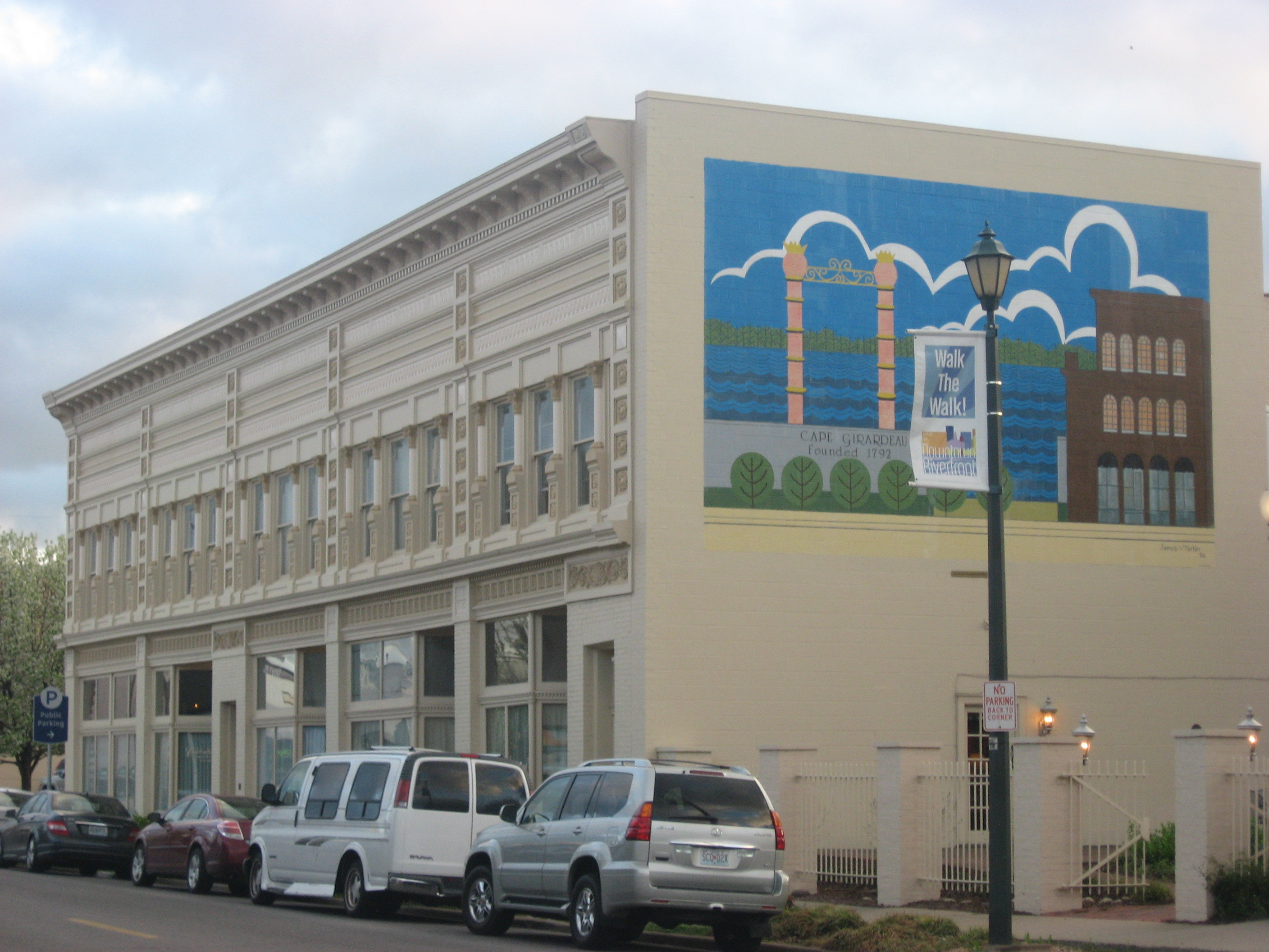 Front and northern side of the Klostermann Block, located at 7-15 S. Spanish Street in Cape Girardeau, Missouri, United States. Built in 1905, it is listed on the National Register of Historic Places.